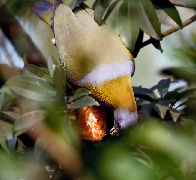 Yellow-foooted Green Pigeon Treron phoenicopterus at Narendrapur, West Bengal, India.